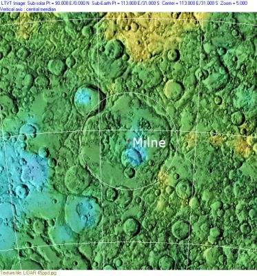 Clementine LIDAR Altimeter texture from PDS Map-a-Planet remapped to north-up aerial view by LTVT. The dot is the center position and the white circle the main ring position from Chuck Wood's Impact Basin Database. Grid spacing = 10 degrees.